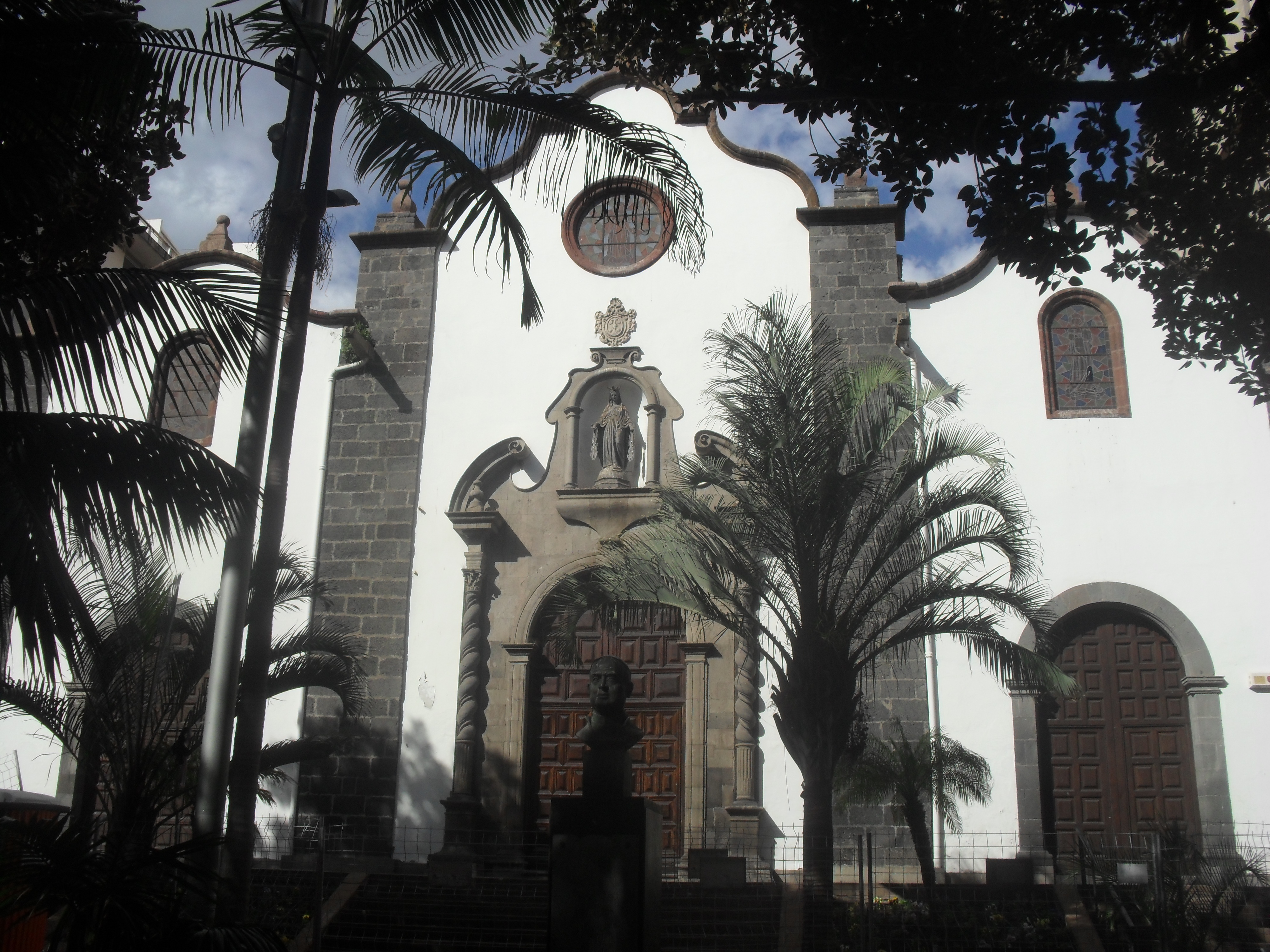 Fachada de la Iglesia de San Francisco de Asís, Santa Cruz de Tenerife.